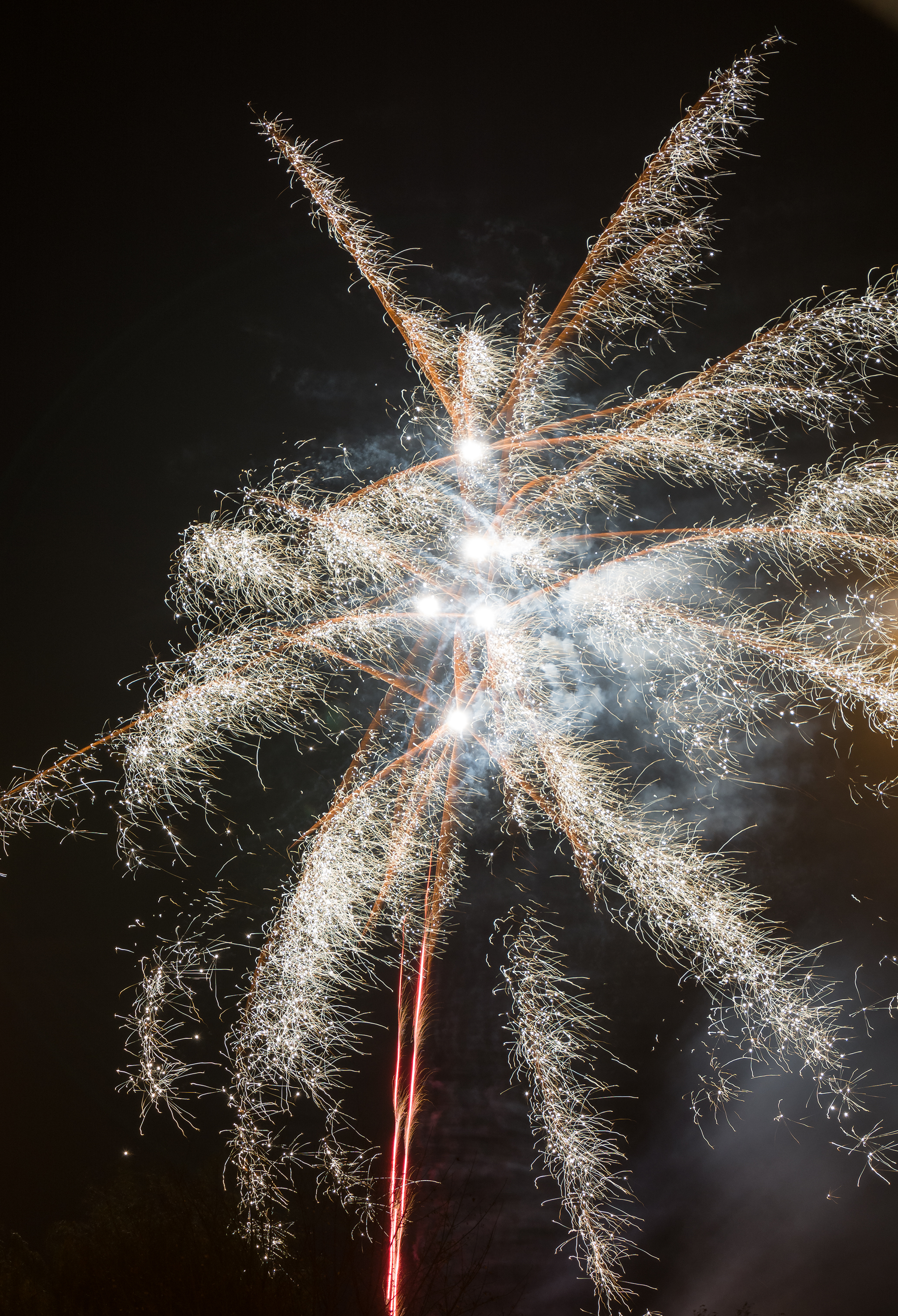 Fireworks in Kłodzko